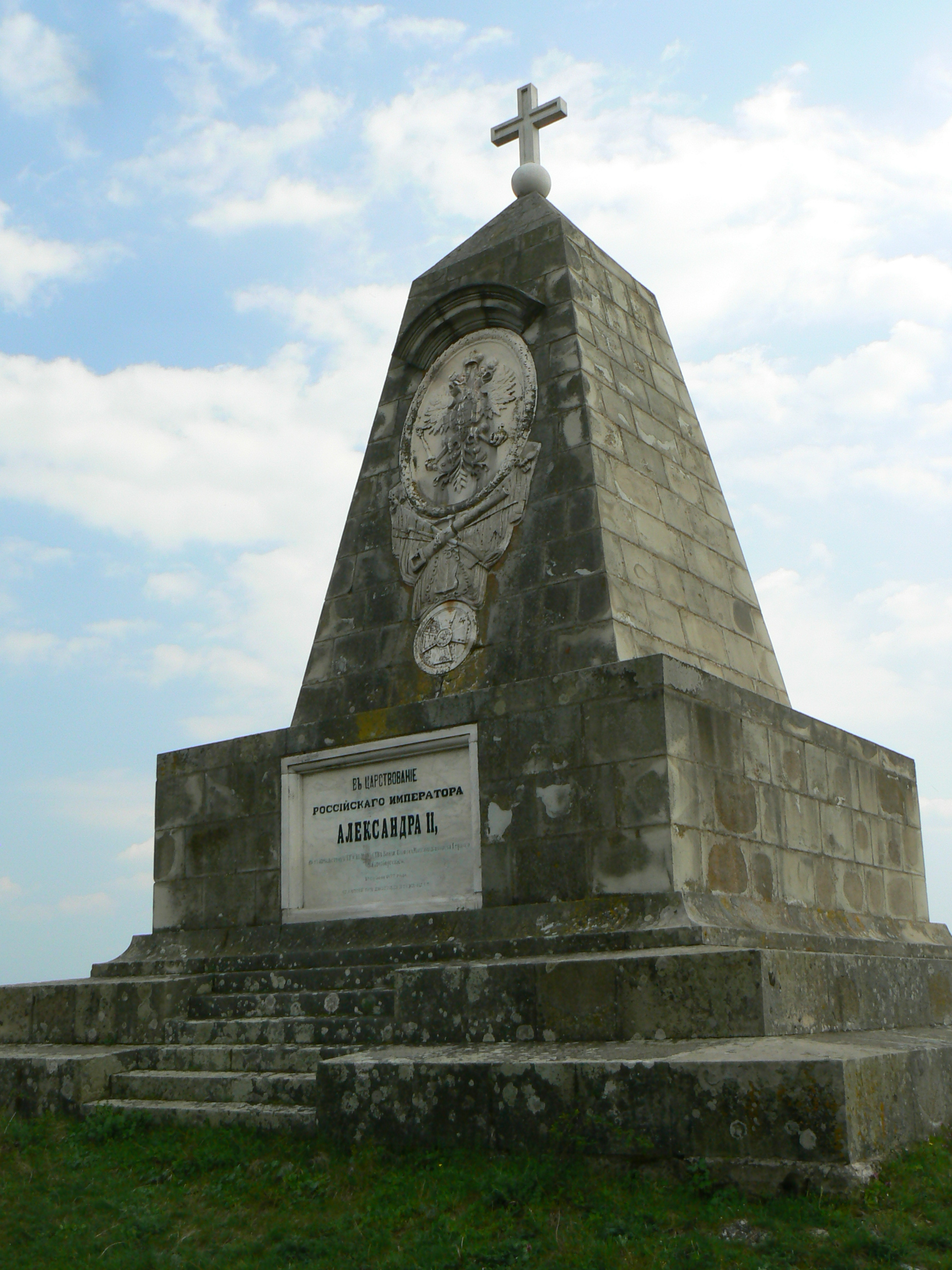 Memorial to the Russian Lieutenant-colonel Pavel Kalitin near the village of Kalitinovo, Bulgaria